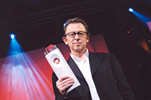 Viktor Giacobbo, Swiss Comedian